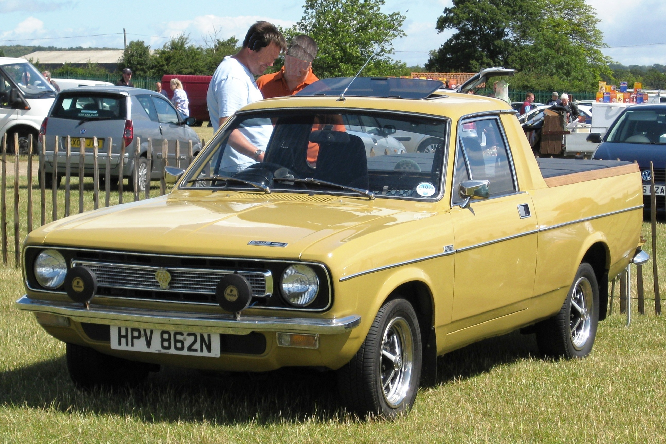 This Morris Marina based coupé utility was badged as an Austin. There were never many of these truck variants sold.